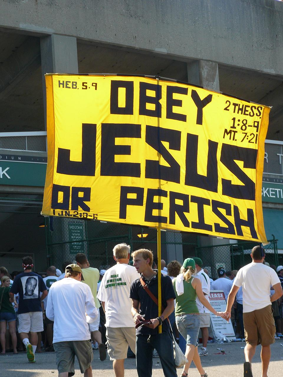 David Woroniecki, son of preacher Michael Woroniecki, with instructive sign for football fans on Michigan State's campus.